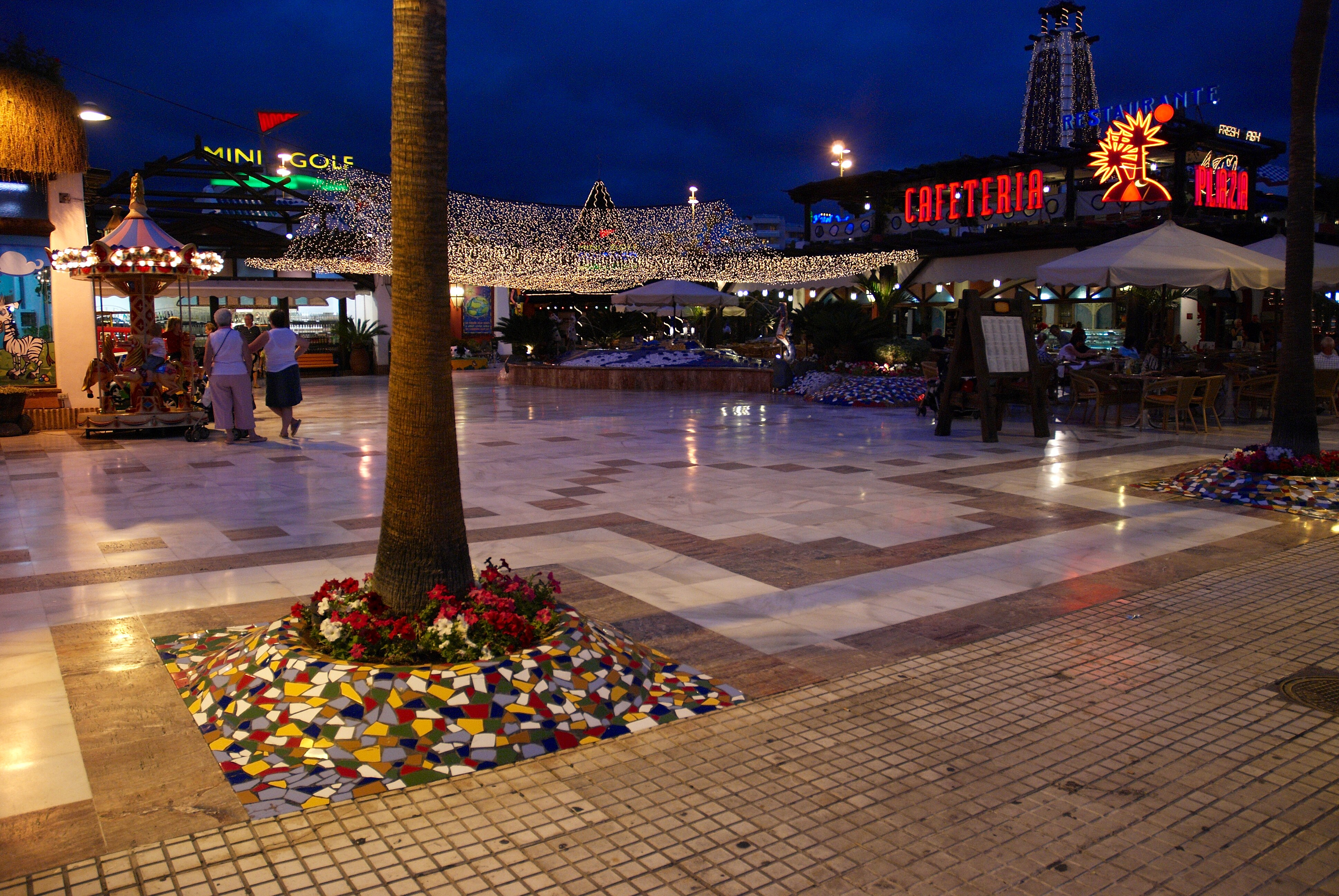 Evening in the Avenue de las Américas, Playa de las Américas, Tenerife, Spain